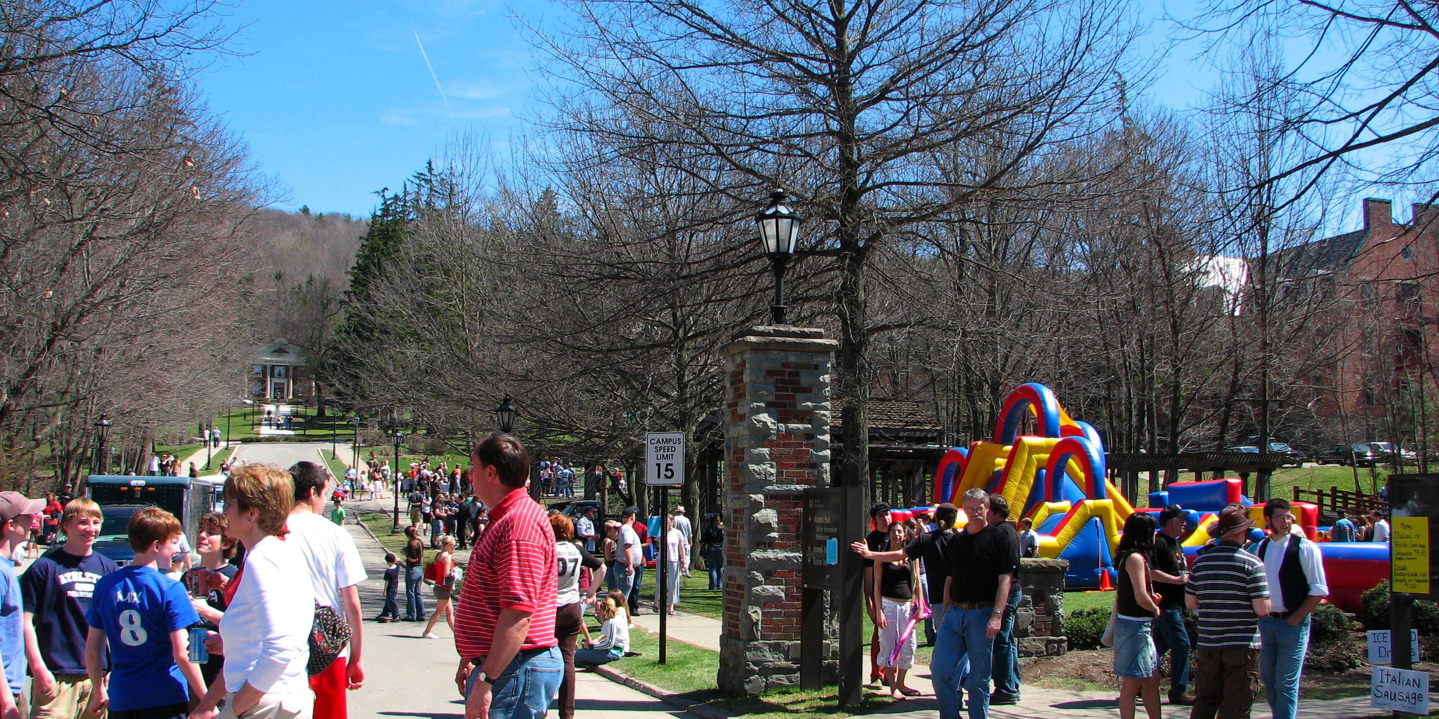 A crowd and a carnival game at Hot Dog Day, April 21, 2007; Alfred University's Howell Hall and statue of King Alfred are visible on the left.